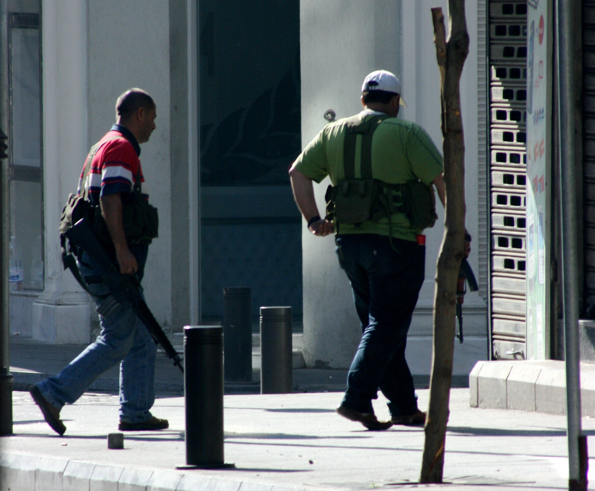 Picture of armed fighters. taken from the Crowne Plaza, in Beirut, Lebanon, during the 2008 unrest in Lebanon